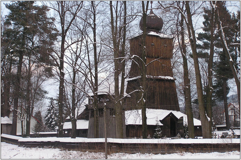 Wooden church of Sts. Peter and Paul in Lachowice, Poland.